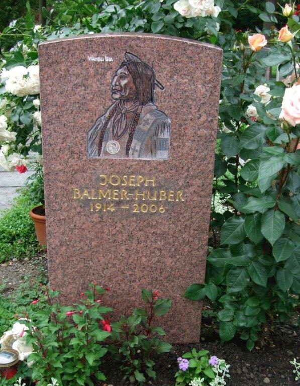 Burial site of Joseph Balmer in Küsnacht, Canton Zürich, Switzerland